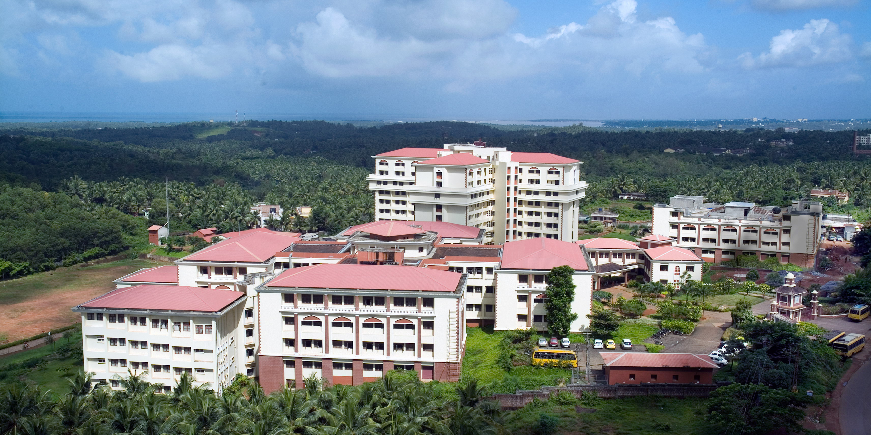 YENEPOYA UNIVERSITY, Deralakatte, Mangalore